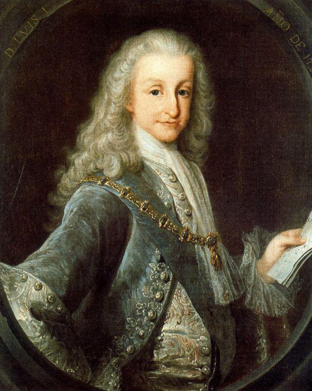 Luis I of Spain